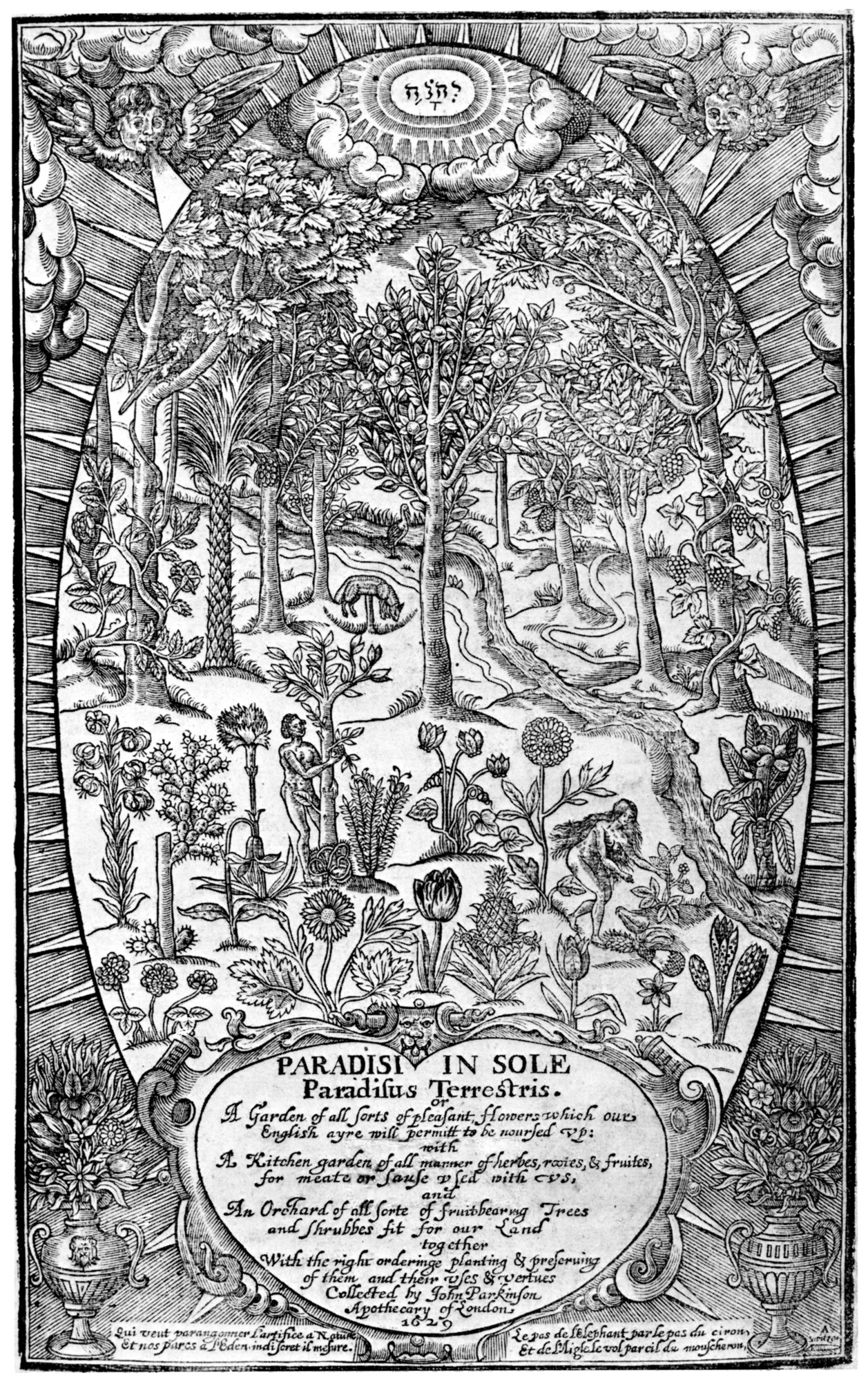 An illustration featuring Adam and Eve in Paradise. Of interest is the depiction of a Vegetable Lamb of Tartary, a mythical plant of central Asia believed to grow sheep as its fruit, which is near the river behind Adam.